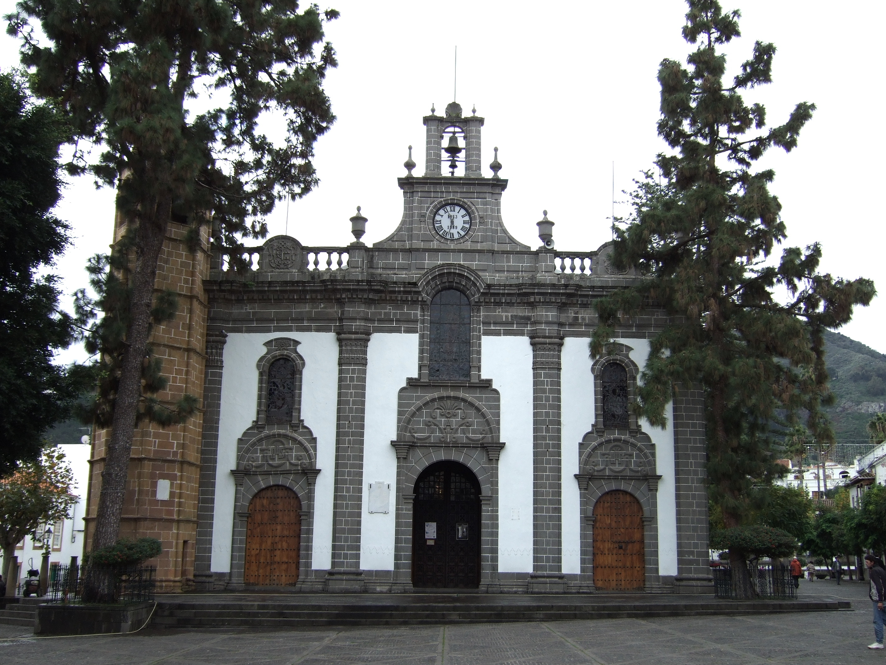 The city church of Teror, Gran Canaria, Canary Islands